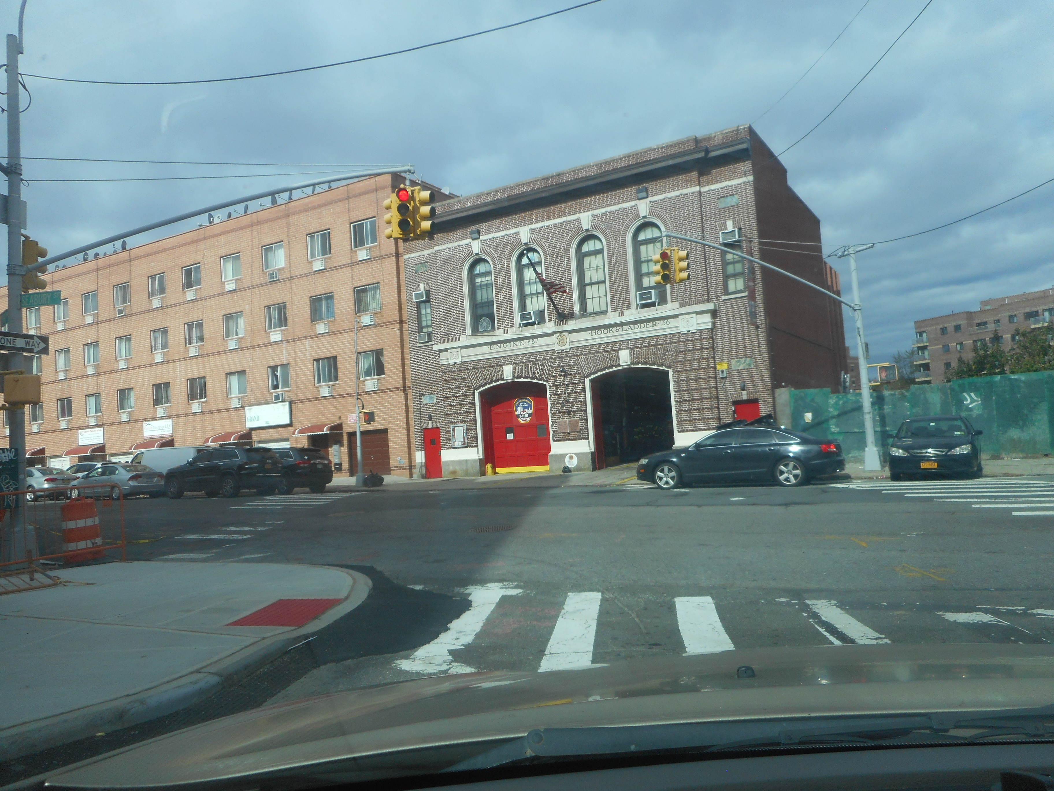 Engine Company Number 287 and Hook and Ladder Company Number 136 of the New York City Fire Department on Grand Avenue as seen from the intersection with Seabury Street in the Elmhurst section of Queens, New York City.